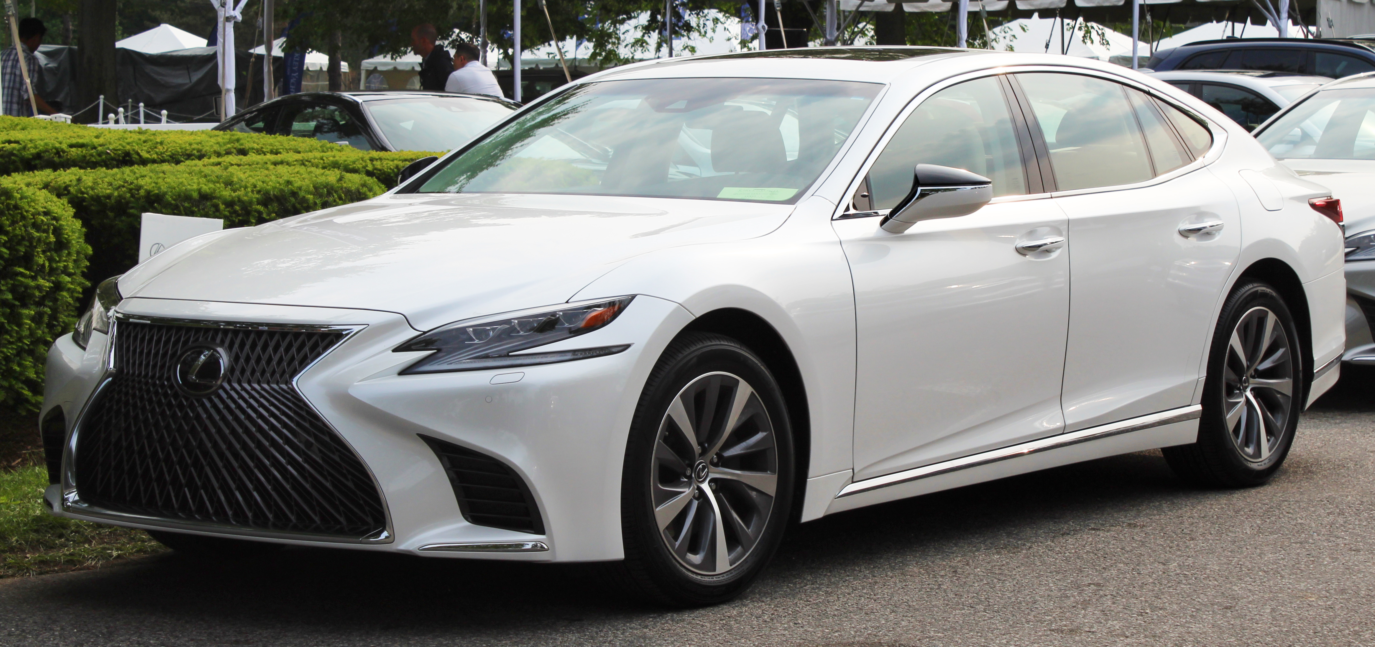 A 2019 Lexus LS 500 test driving photographed in Greenwich Concours d'Elégance Hagerty parking lot, Connecticut, USA